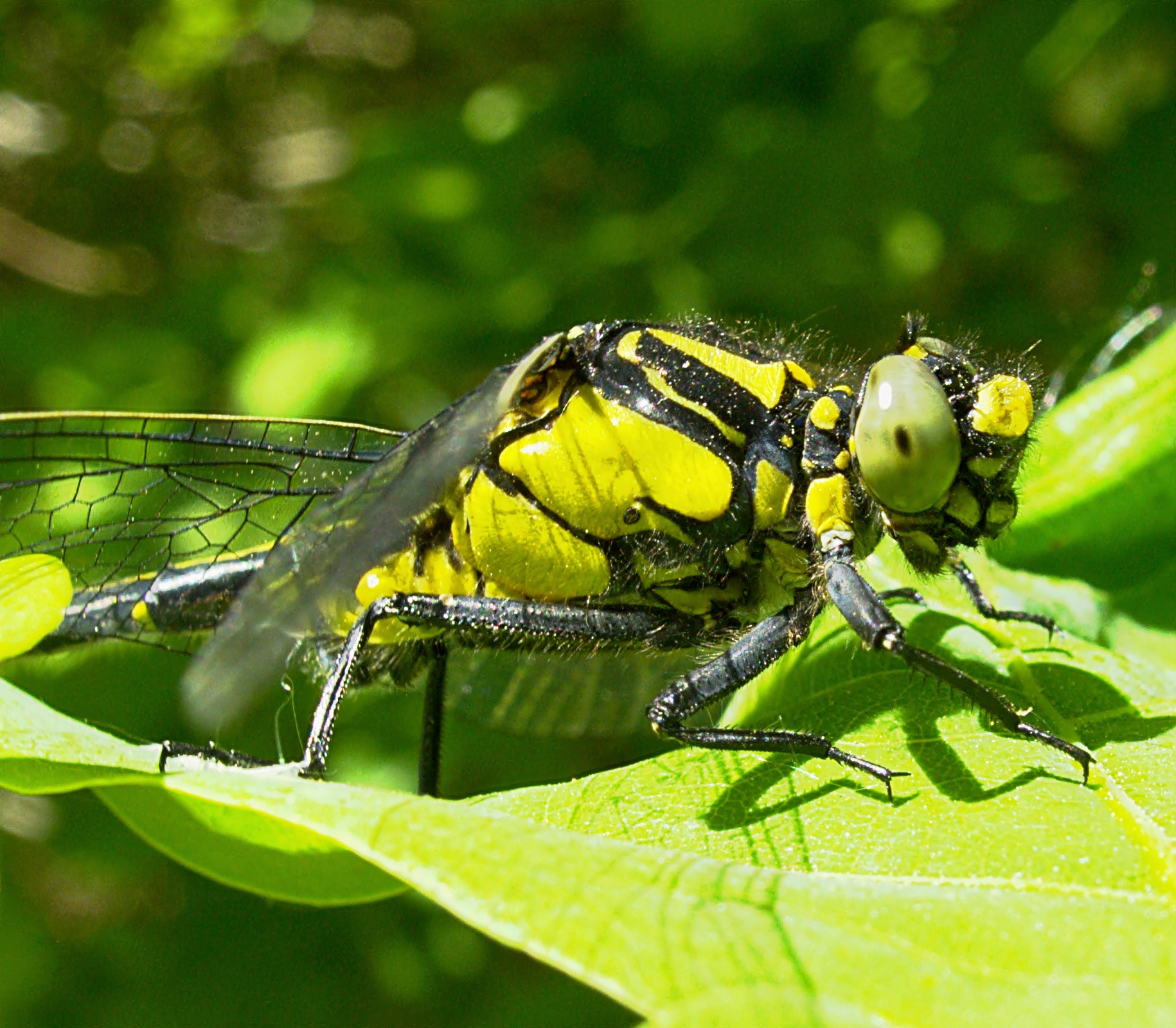 Name: Gomphus vulgatissimus, male. Family: Gomphidae. Location: Münster, NRW, Germany